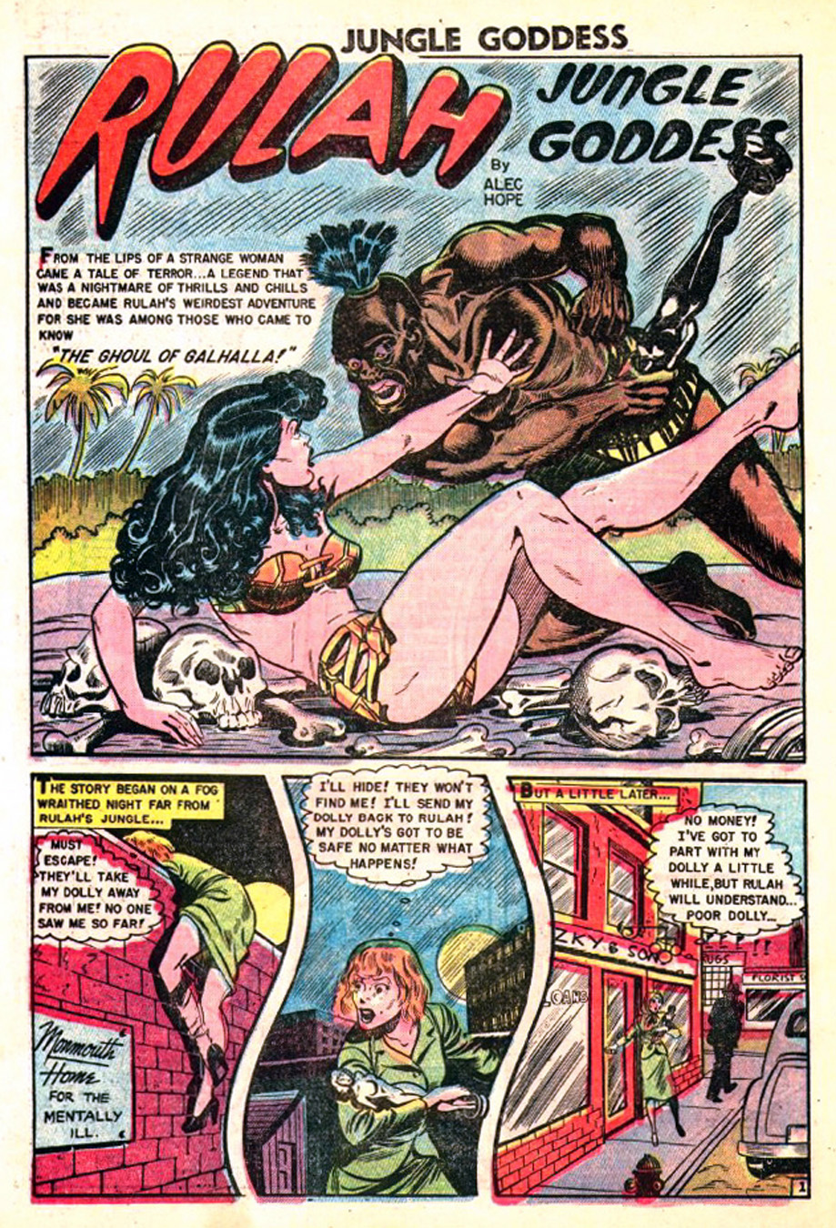 Rulah #22, page 14 January 1949